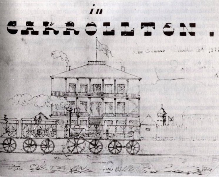 Carrolton, Louisiana (later annexed into the city of New Orleans). View of New Orleans and Carrollton Railroad locomotive in front of the Carrollton Hotel.